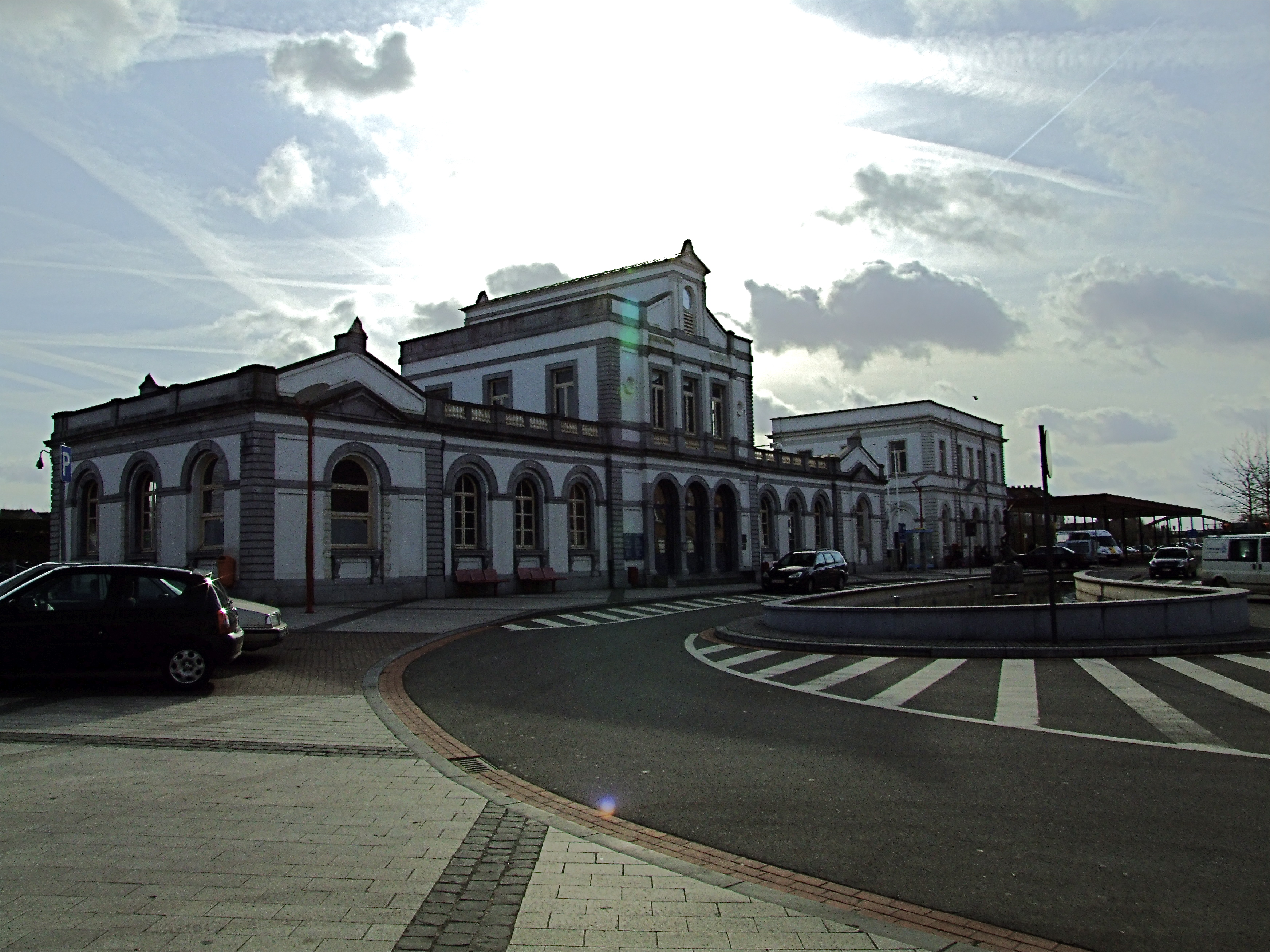 Ronse railway station, Belgium.